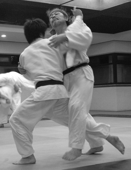 Ouchi gari